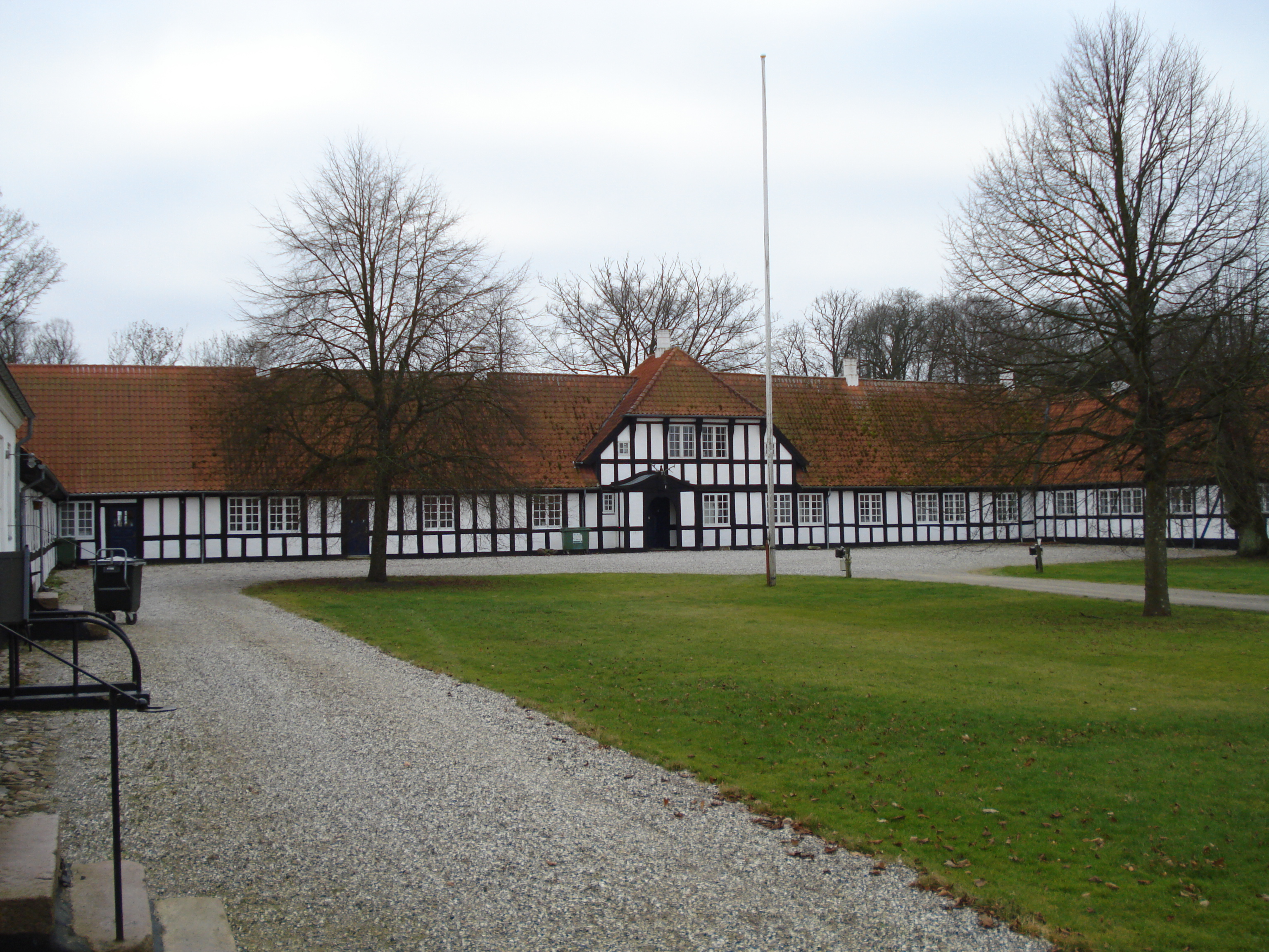 Kalø Hovedgård is an old manorhuse in Jutland, Denmark